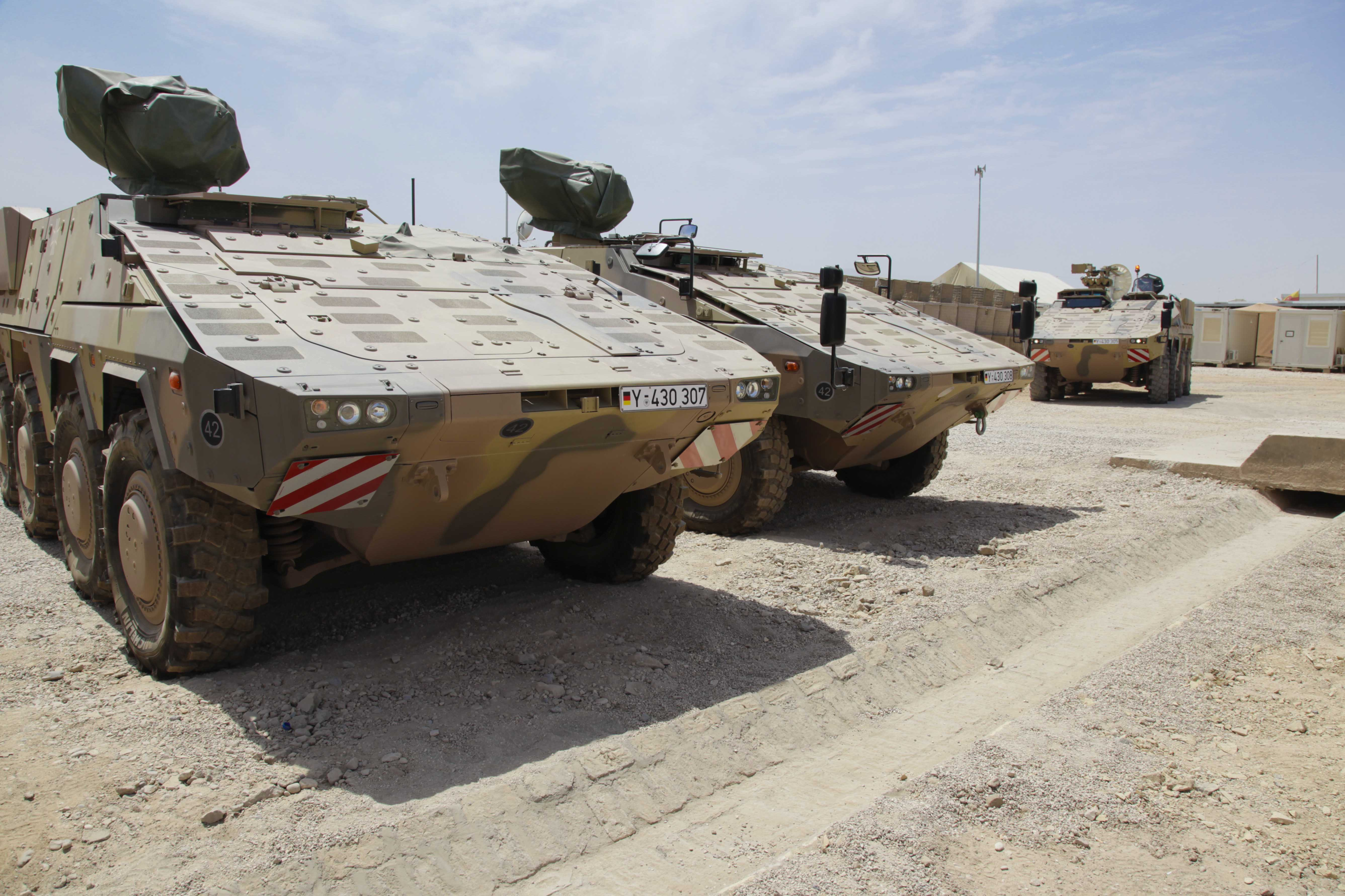 110702-O-XXXXK-007 MAZAR-E-SHARIF, Afghanistan. (July 28, 2011) The first German Army Boxer Armored Transport Vehicles deployed to Northern Afghanistan arrive at Camp Marmal, International Security Assistance Force, Regional Command North. The Boxer is equipped with modern optics and remote-controlled weapons stations and provides improved protection to its crews. (RC North Public Affairs photo by Tech. Sgt. Florian Krumbach/Released)